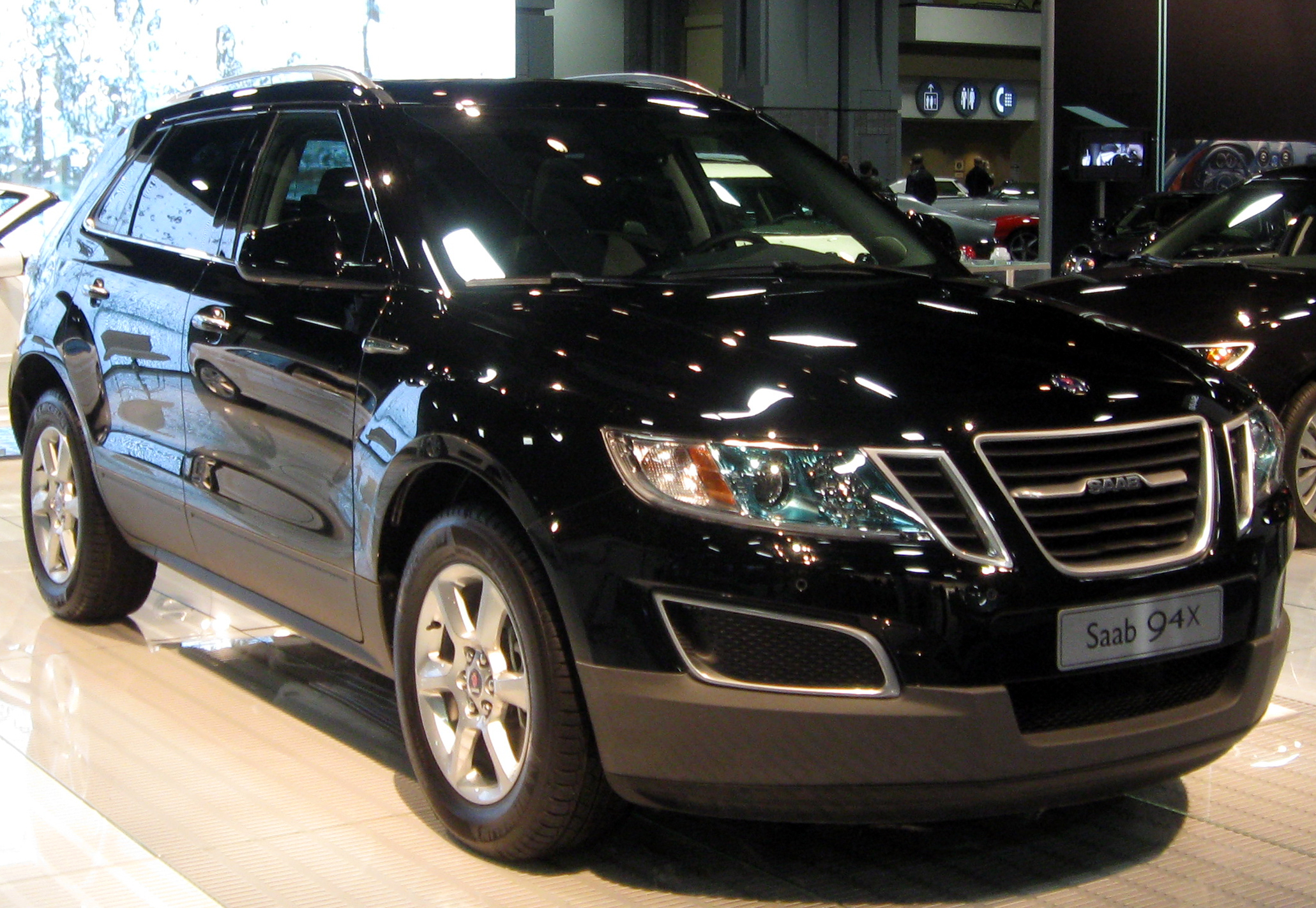 2011 Saab 9-4X photographed at the 2011 Washington (D.C.) Auto Show.